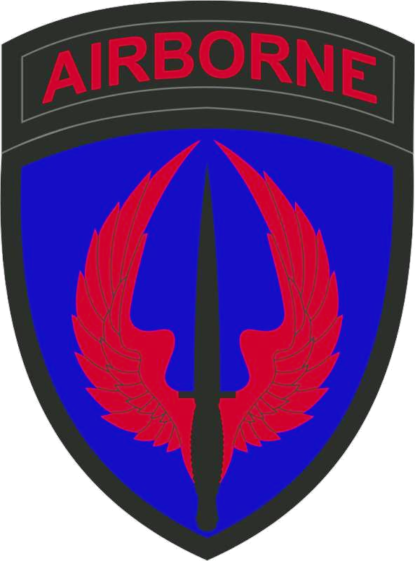 U.S. Army Special Operations Aviation Command Shoulder Sleeve Insignia